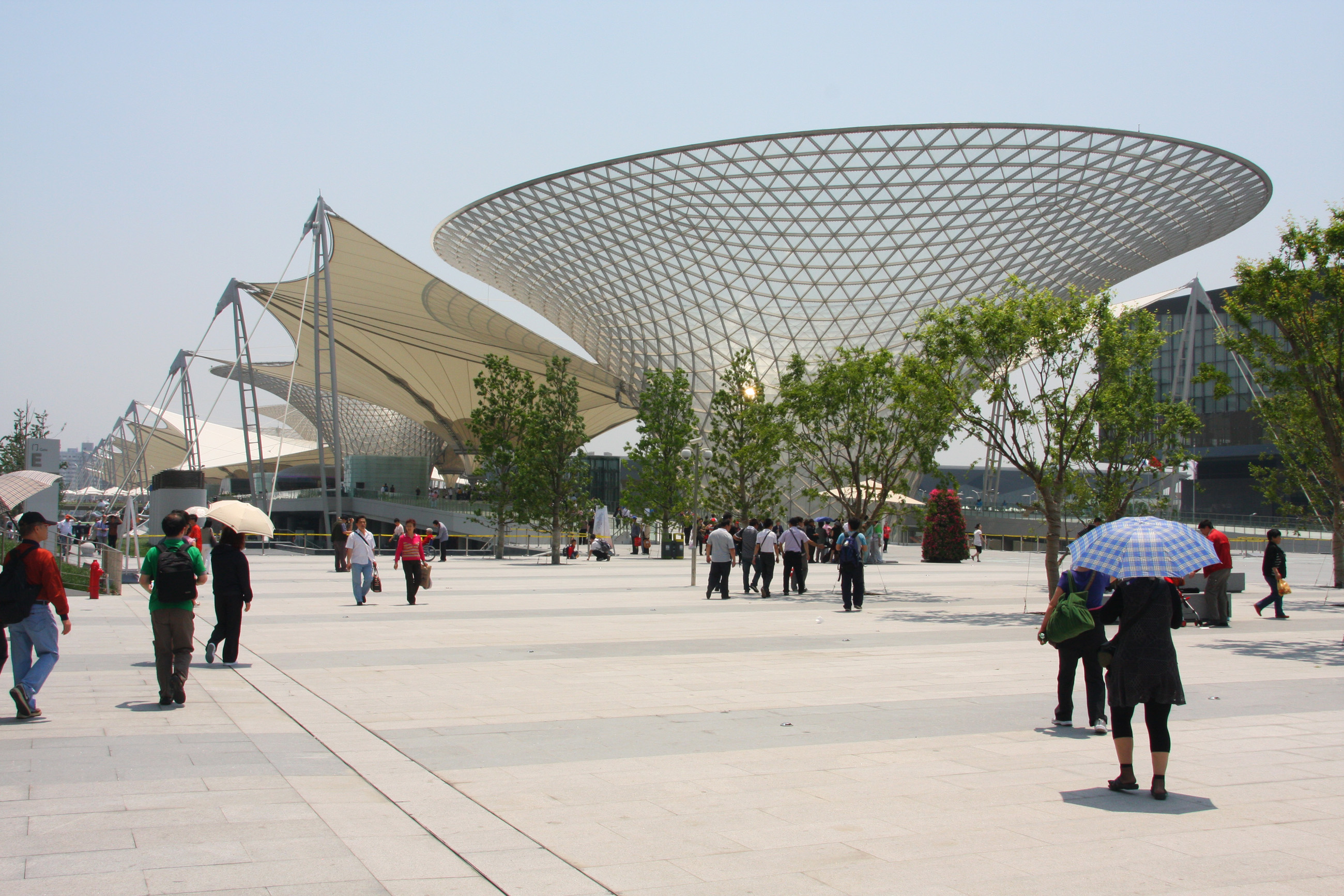 Expo Axis Shanghai